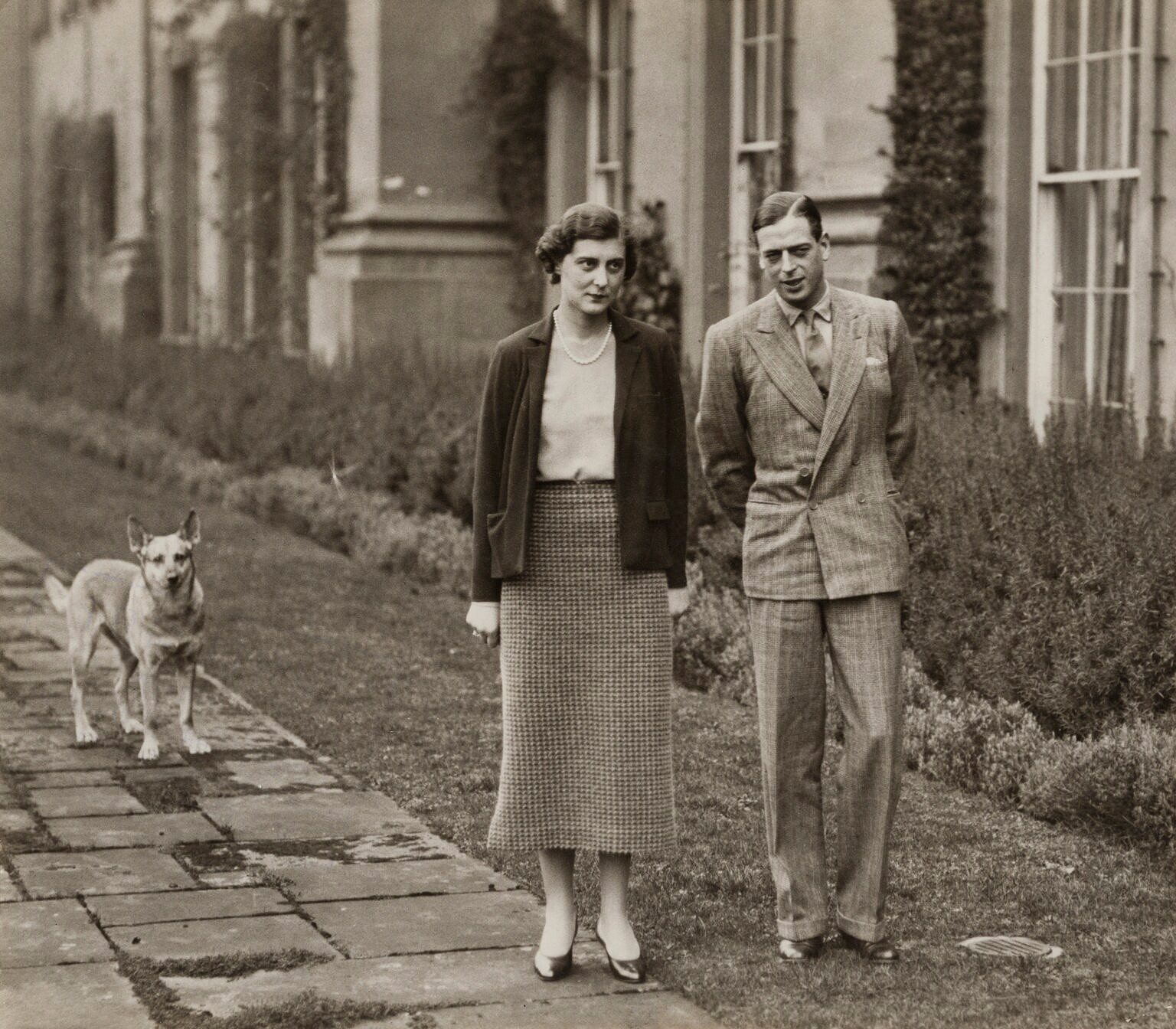 Photograph of Duke and Duchess of Kent, published by The Times in 1934.